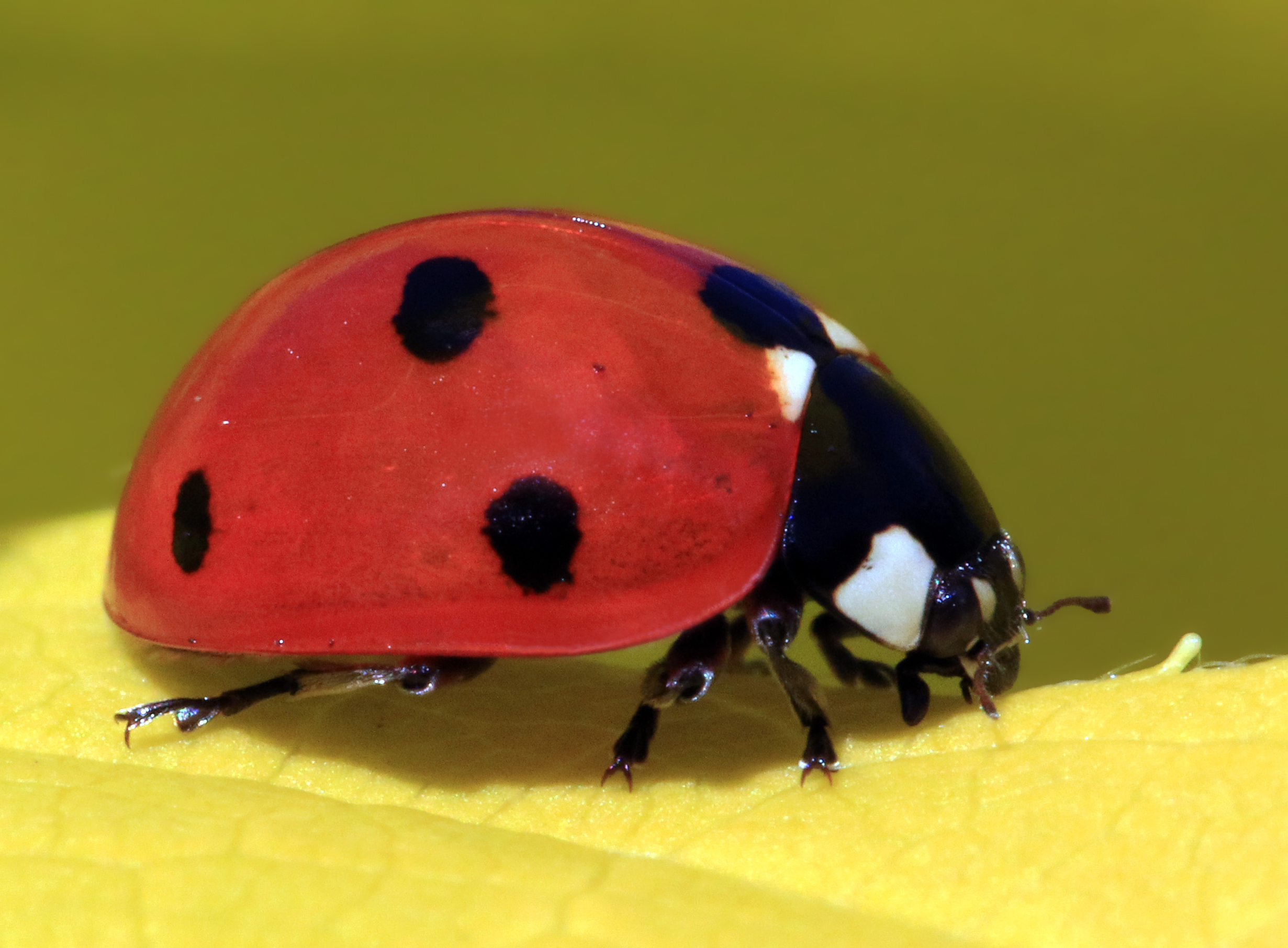 Coccinella septempunctata - 7-Spotted Ladybug